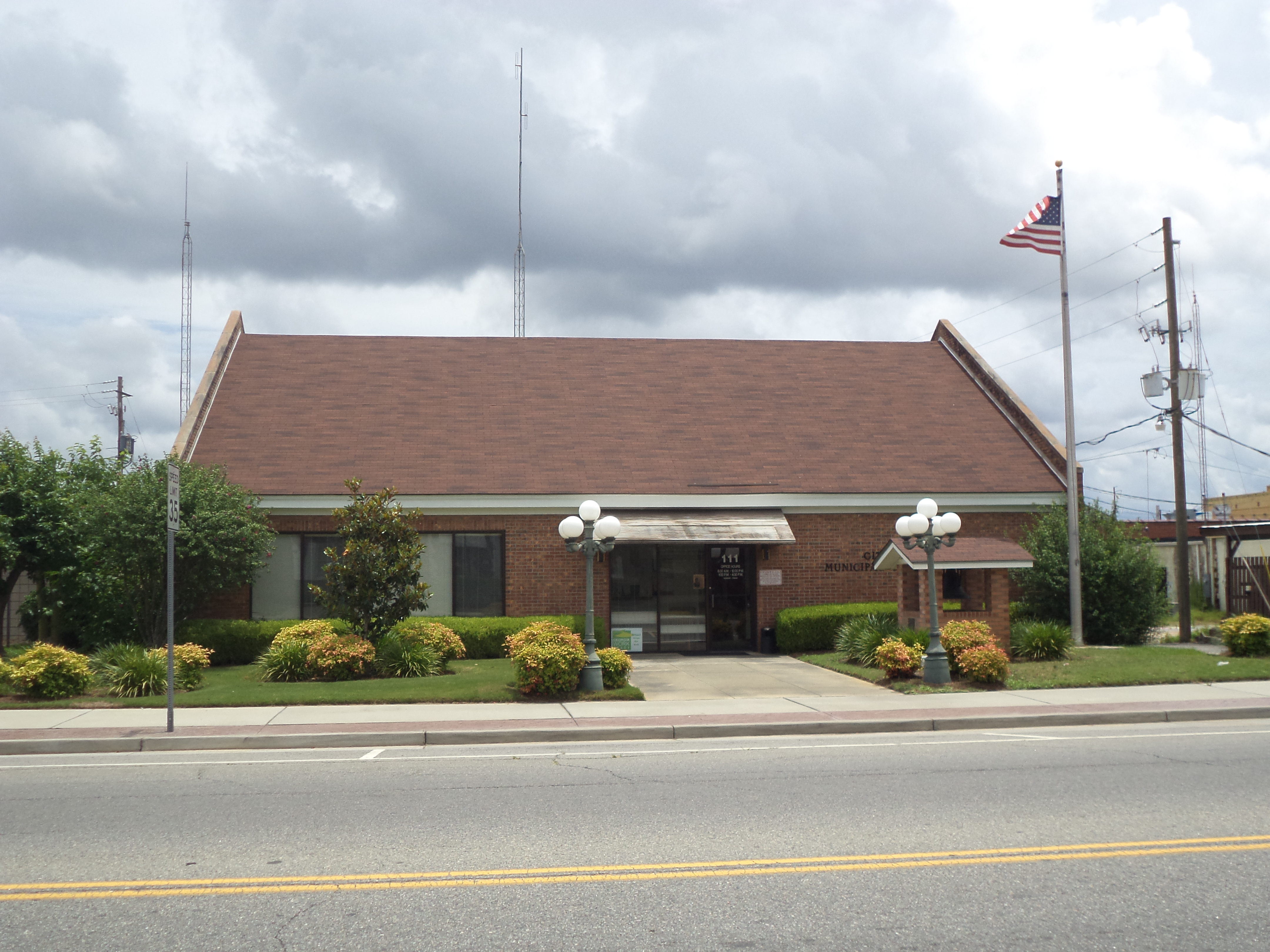 Ocilla City Hall, 111 N. Irwin Ave., Ocilla, Irwin County, Georgia